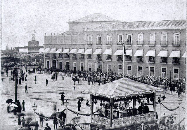 The Imperial Palace in Rio de Janeiro being prepared for the wedding ceremony of Princess Isabel and Prince Gaston of Orléans, Count of Eu. O Paço Imperial por ocasião do casamento da Princesa Isabel com o Conde d'Eu.